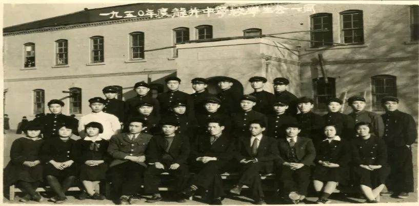 Longjing Middle School, 1950